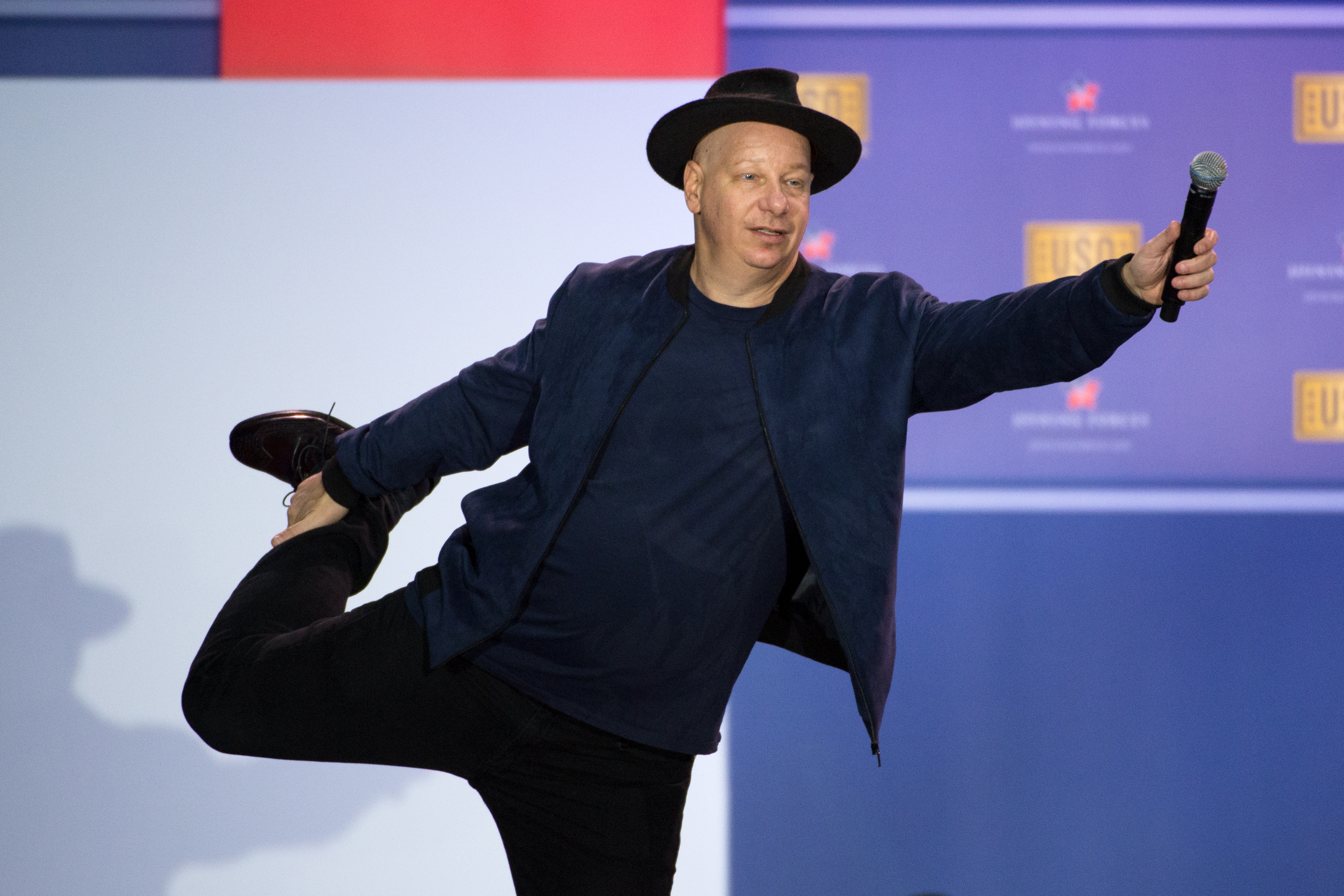 Comedian Jeff Ross performs during the comedy show in celebration of the 75th anniversary of the USO and the 5th anniversary of Joining Forces at Joint Base Andrews in Washington, D.C. May 5, 2016. Joining Forces is an initiative to help military, veterans and their families founded by Dr. Jill Biden and First Lady Michelle Obama.